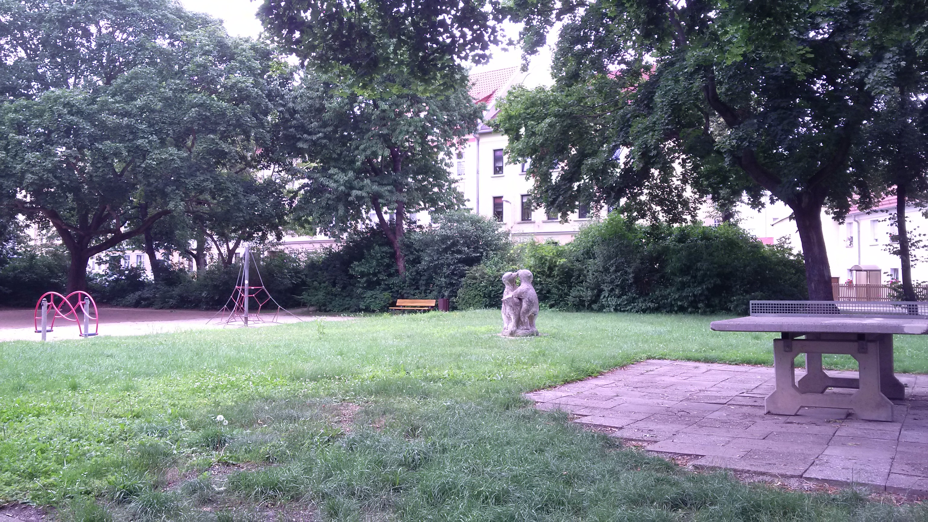 Playground with little bear children